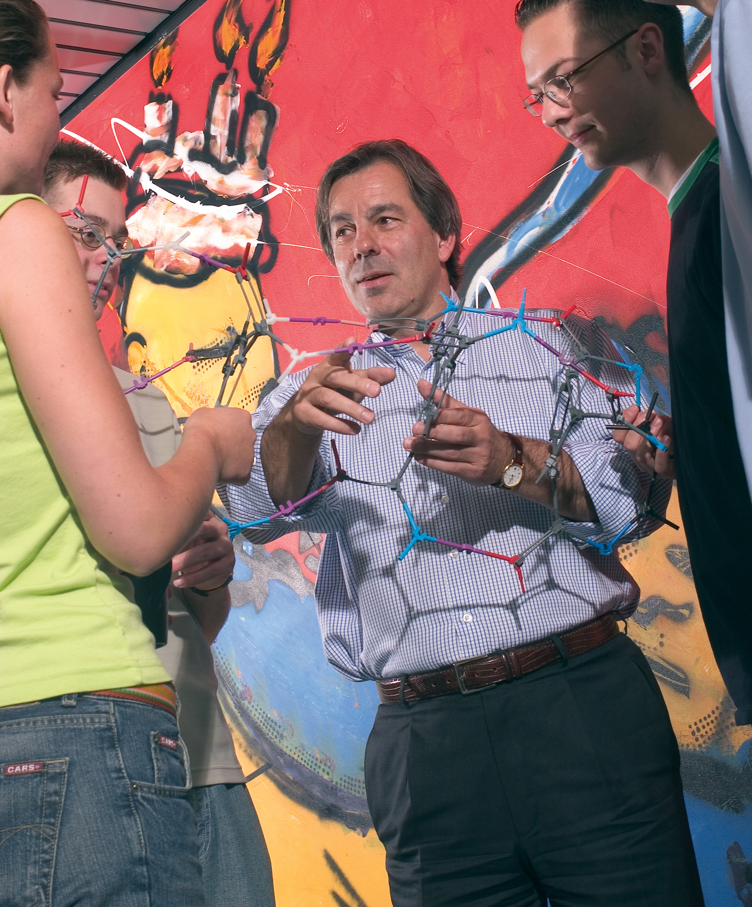 Dutch chemist E.W. (Bert) Meijer (2001)